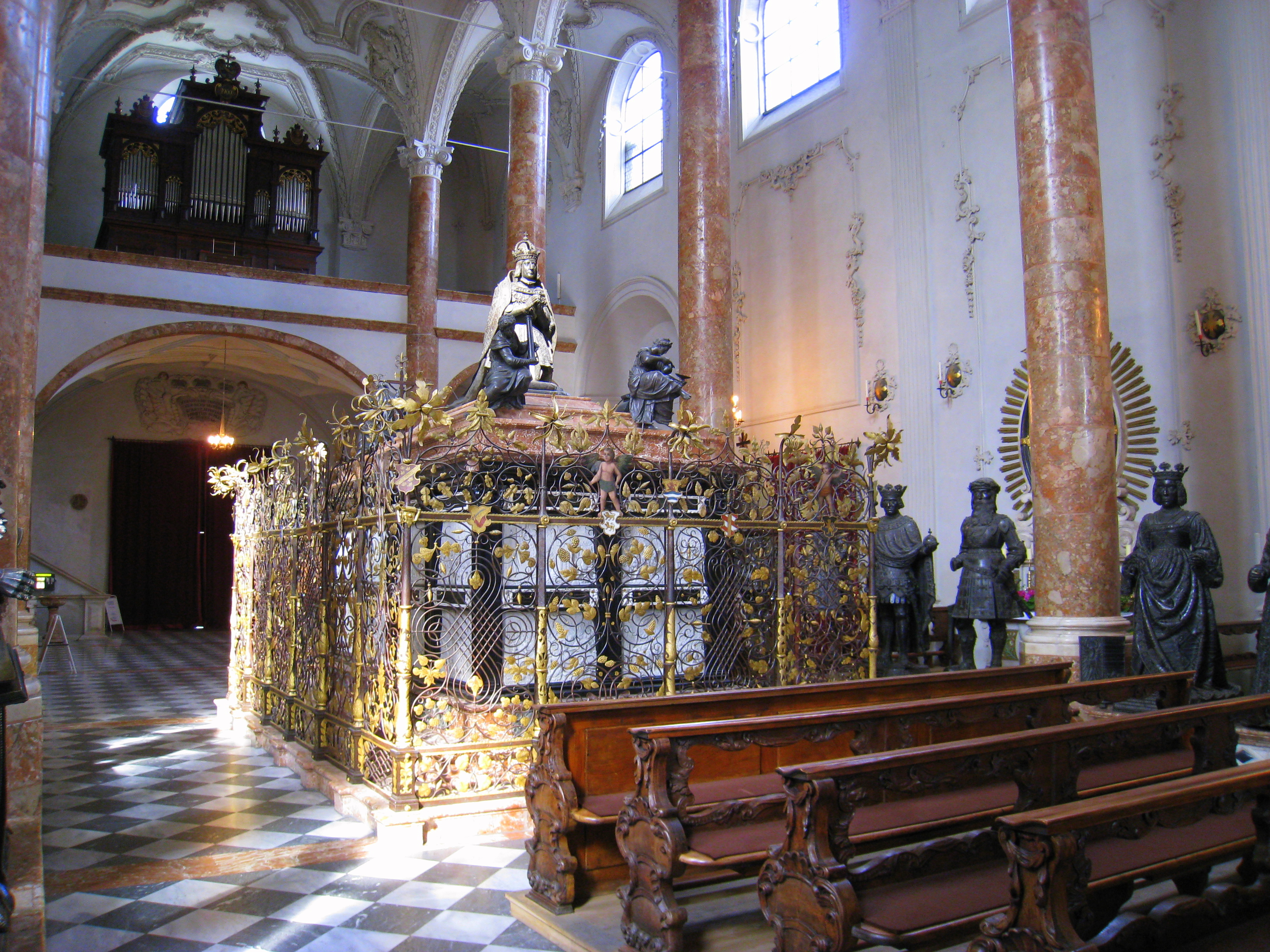 Hofkirche, Innsbruck, Austria - Maximilian I cenotaph. In the background the romantic organ by Hans Mauracher (built in 1900).